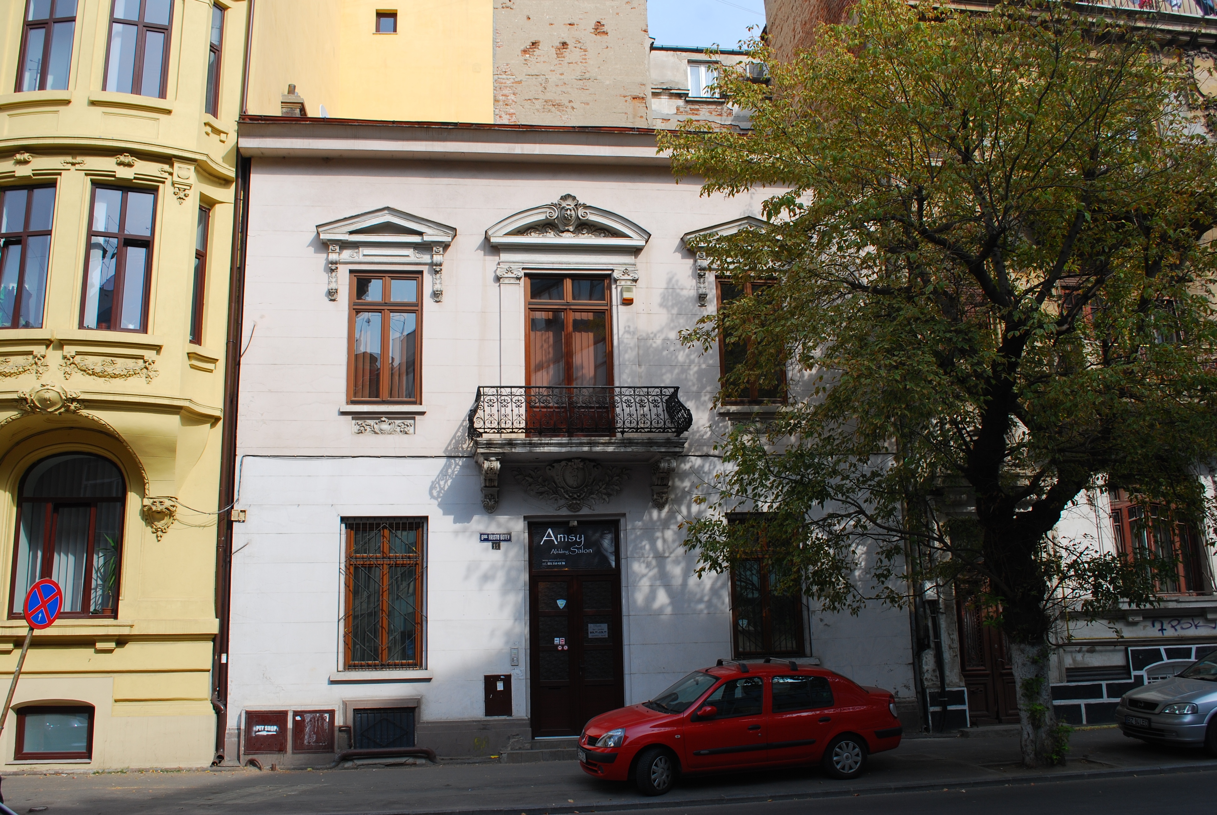 Historic building in Bucharest, Romania, on Hristo Botev str. 11